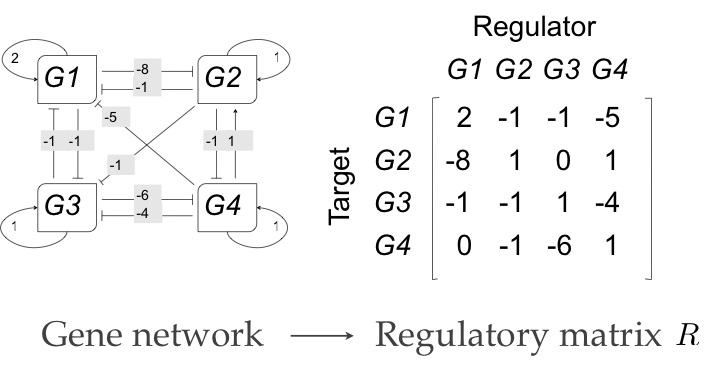 The figure shows an example of genetic regulatory network and the representation of it in the model, the regulatory matrix